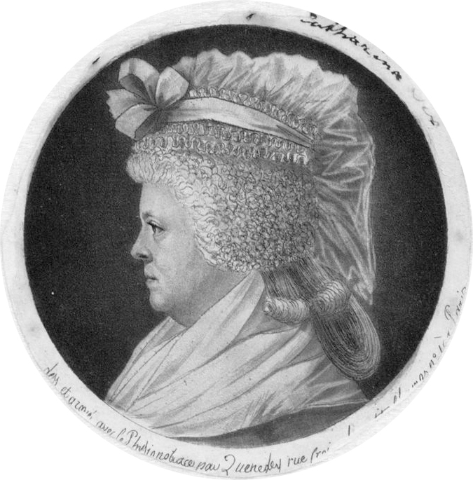 Catharina Six (1752-1793), wife of Jan Bernd Bicker drawing 1790